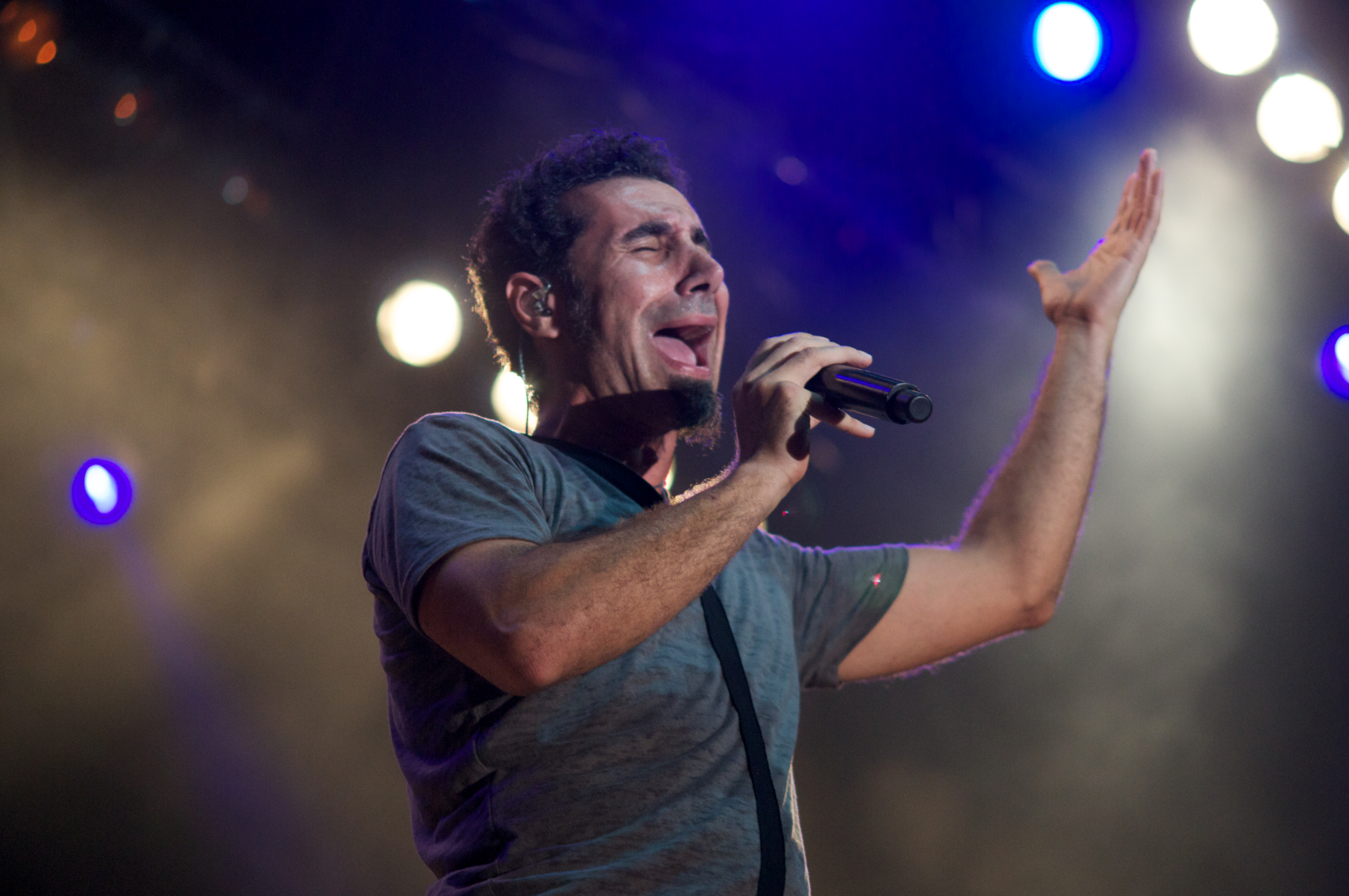 Serj Tankian, Spirit of Burgas 2010 Serj Tankian по време на фестивала Spirit of Burgas